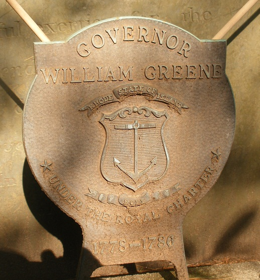 The governor's grave medallion for William Greene, the second governor of the state of Rhode Island and Providence Plantations.